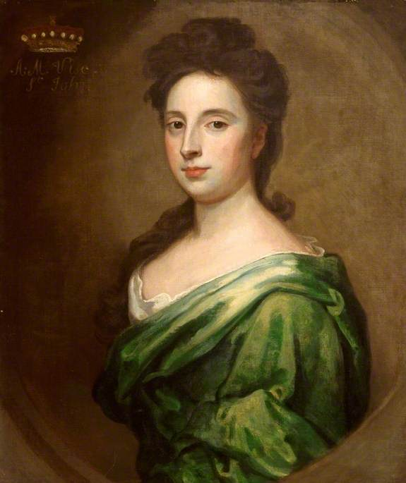 Angelica Magdalena Wharton, née Pelissary, (c.1664–1705), Second Wife of the 1st Viscount St John